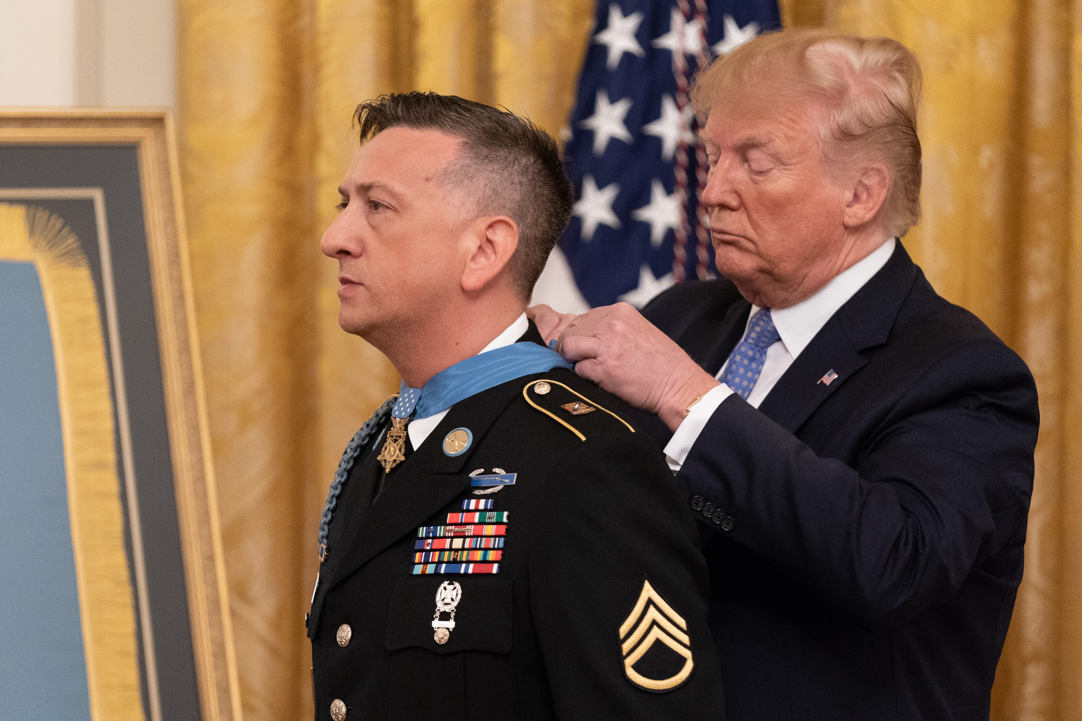 President Donald J. Trump presents the Medal of Honor to U.S. Army Staff Sgt. David Bellavia Tuesday, June 25, 2019, in the East Room of the White House. (Official White House Photo by Shealah Craighead)